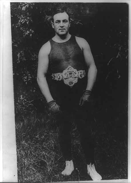 Canadian heavyweight boxer Tommy Burns